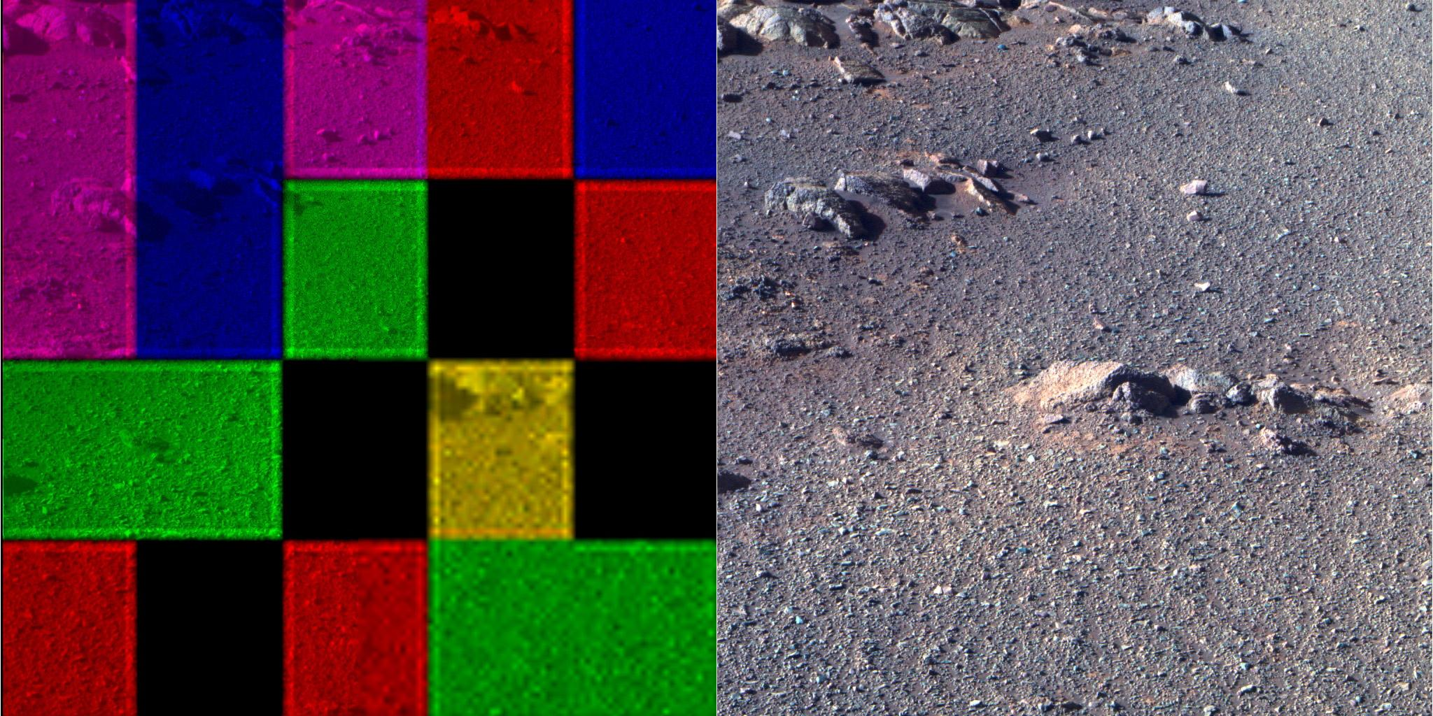 PIA23248: Artistic Pancam Frame These side-by-side images were taken by the Pan Camera (Pancam) on NASA's Opportunity rover. They're actually the same image; the left version is how the image originally came down, due to data dropouts. The right shows the same image after processing all the data. The image is from the 4,493rd Martian day, or sol, of the mission. NASA's Jet Propulsion Laboratory, a division of Caltech in Pasadena, California, manages the Mars Exploration Rover Project for NASA's Science Mission Directorate in Washington. For more information about Opportunity, visit and